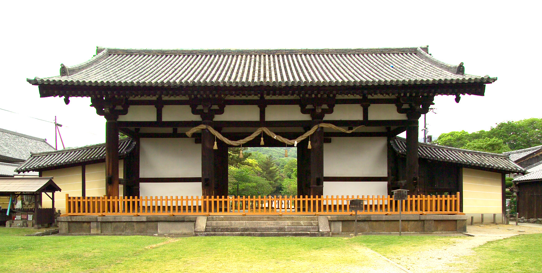 This photograph shows the Tegai Gate (転害門), a National Treasure (国宝) at Tōdai-ji, a temple in Nara, Japan.